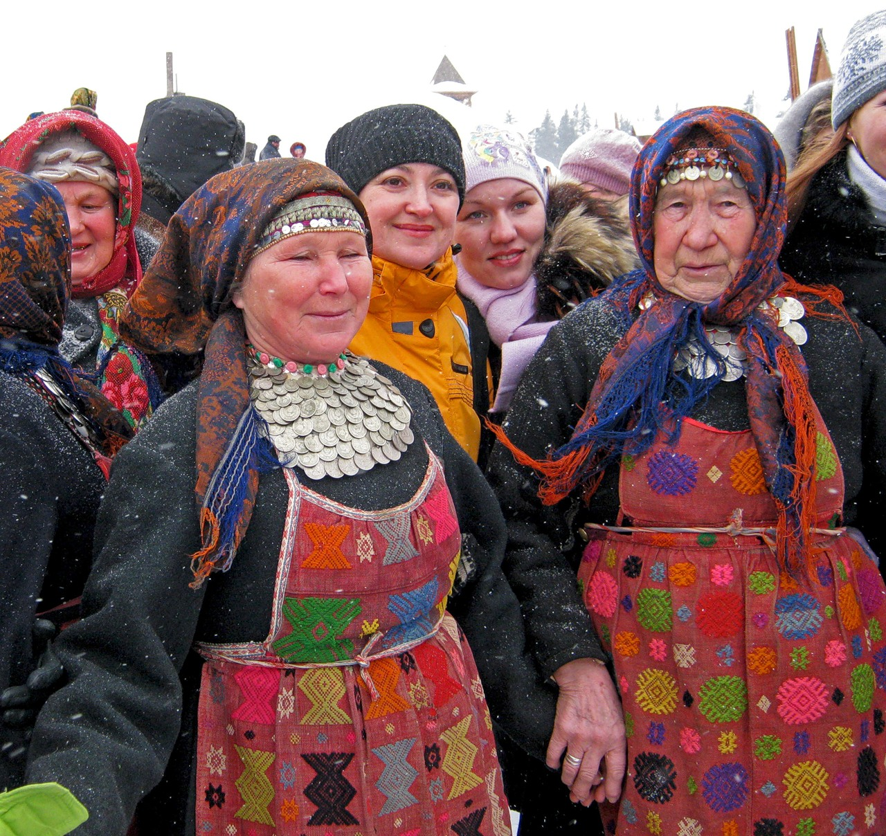 Buranovskiye Babushki